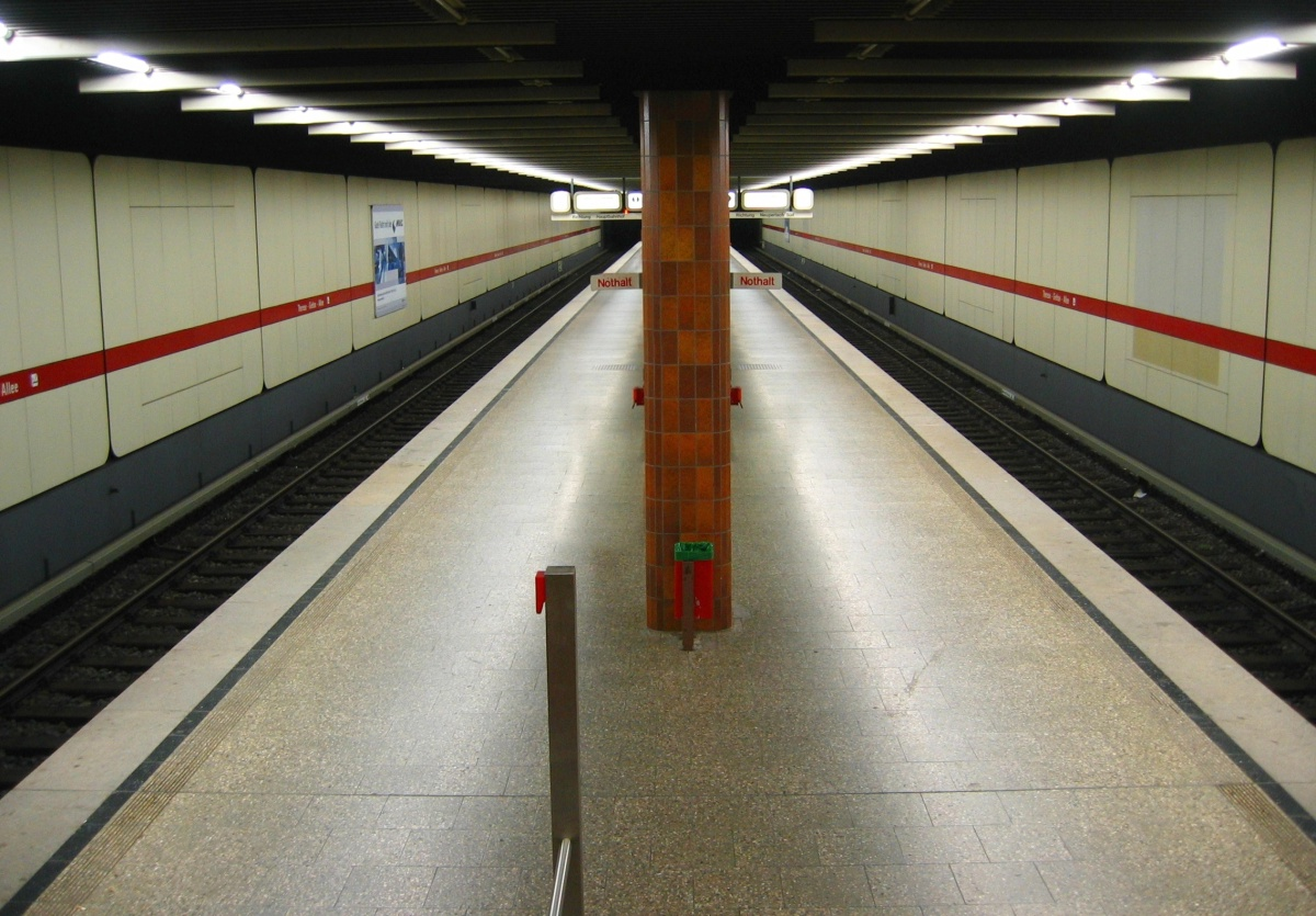 Munich subway station Therese-Giehse-Allee